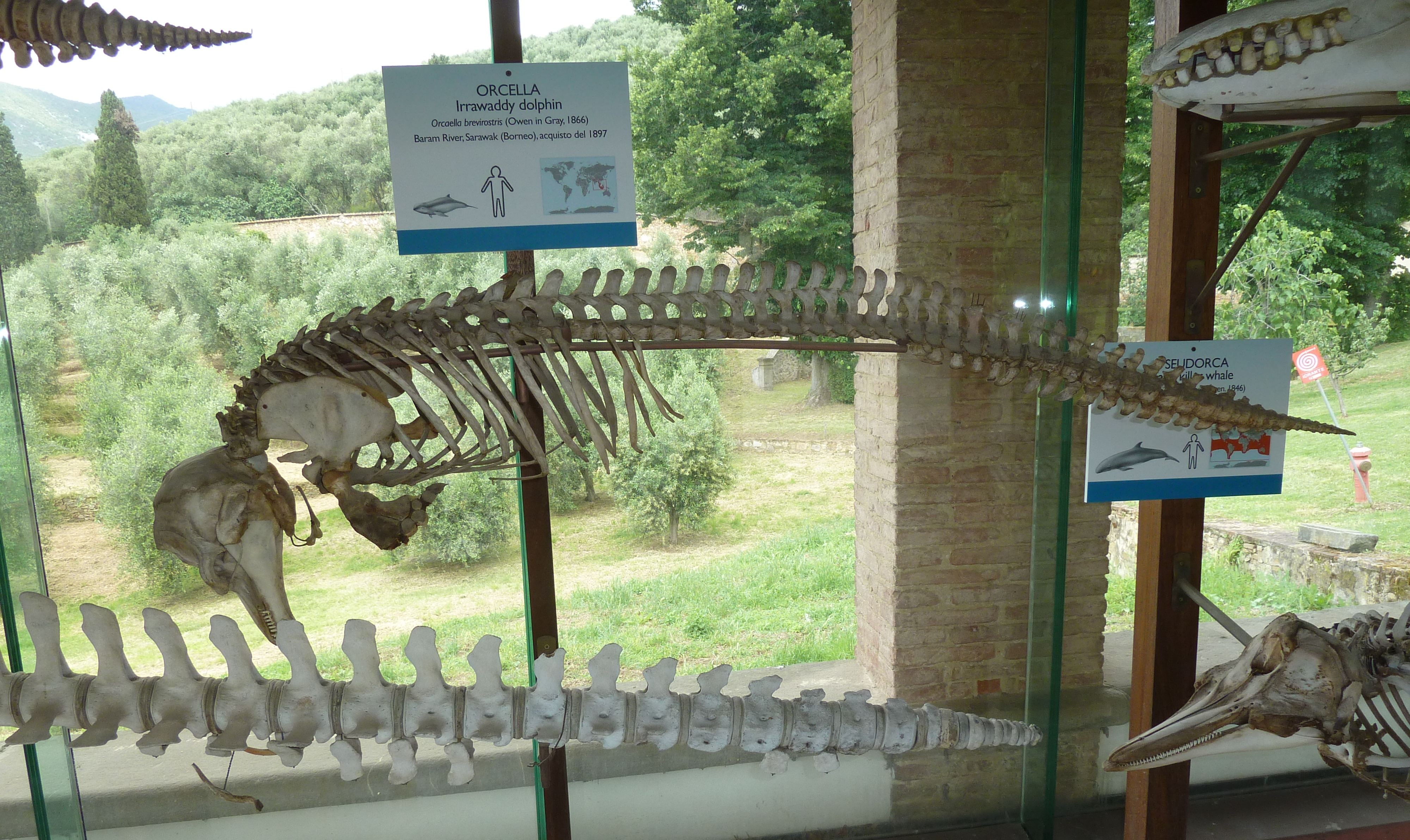 Orcaella brevirostris Calcis